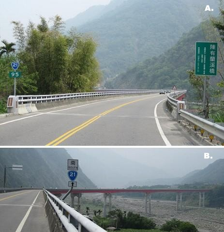 A.Chenyoulan River Bridge. B.The Bridge across the River Chenyoulan in Sinyi,Taiwan.